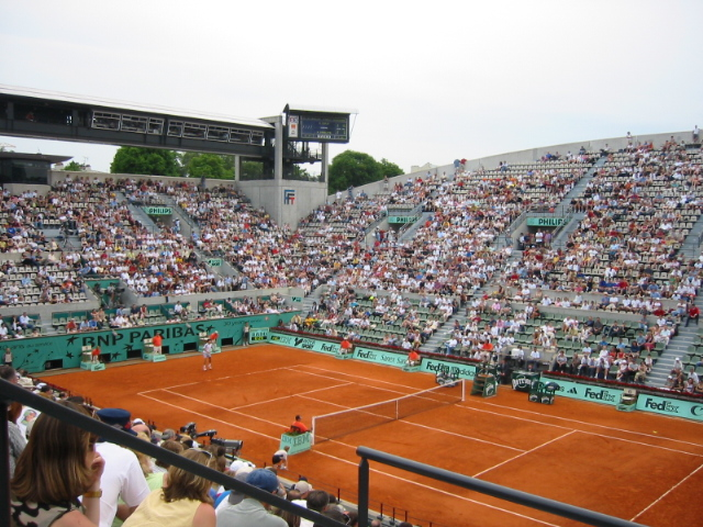 Susan Leglen Stadium at Roland Garros